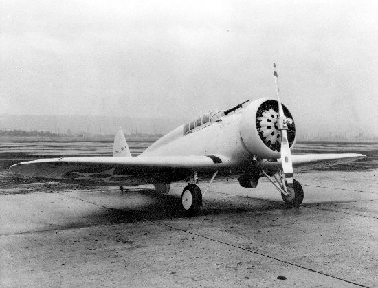 Boeing XF7B-1, early configuration (closed cockpit).